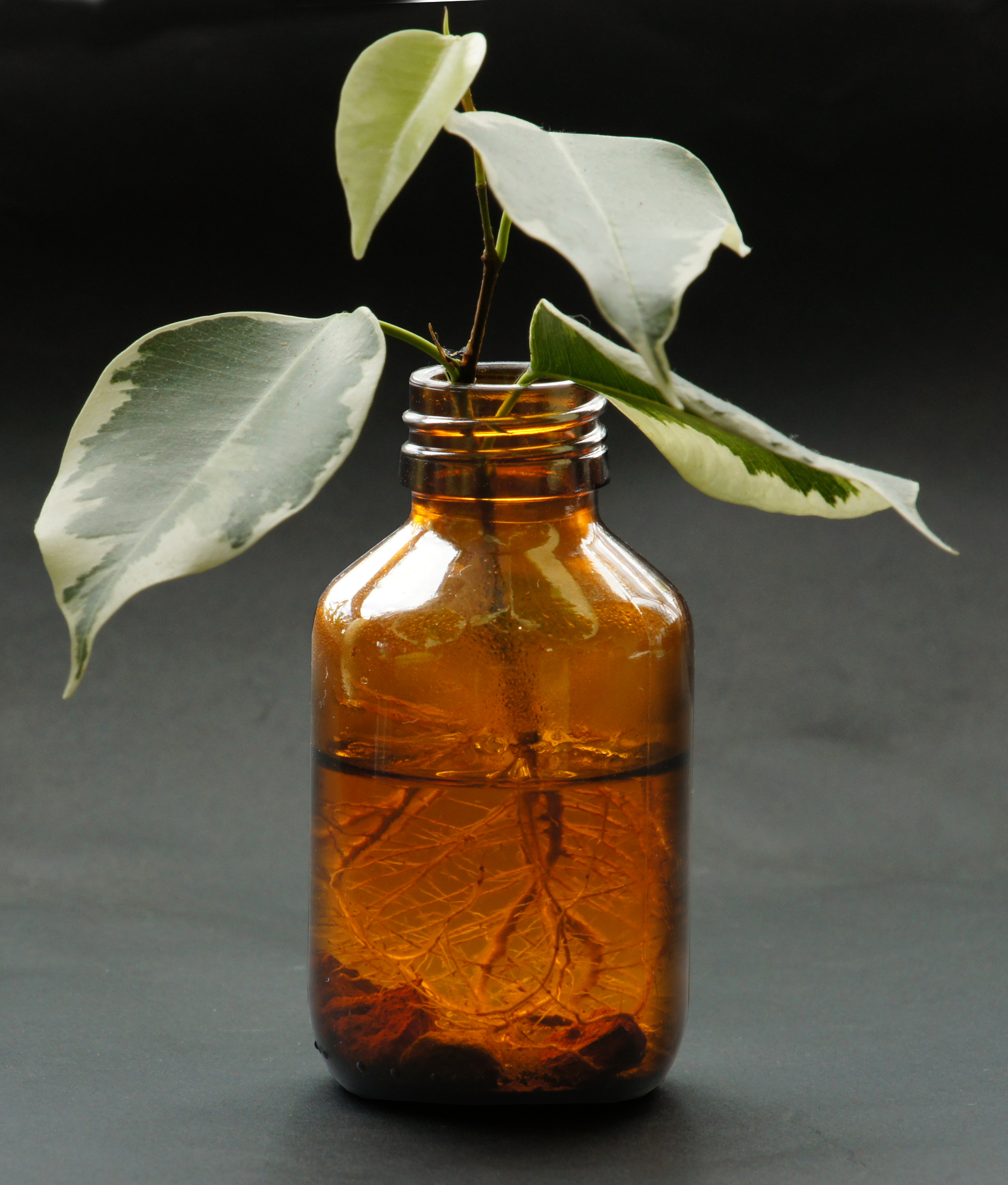 Ficus Benjamina cuttings with roots in a bottle / dark container with water and bricks waste. Grows without hormones or chemicals.